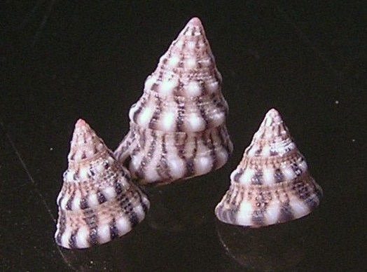 Jujubinus unidentatus (Philippi, 1844), a top snail from the family Trochidae; Greece